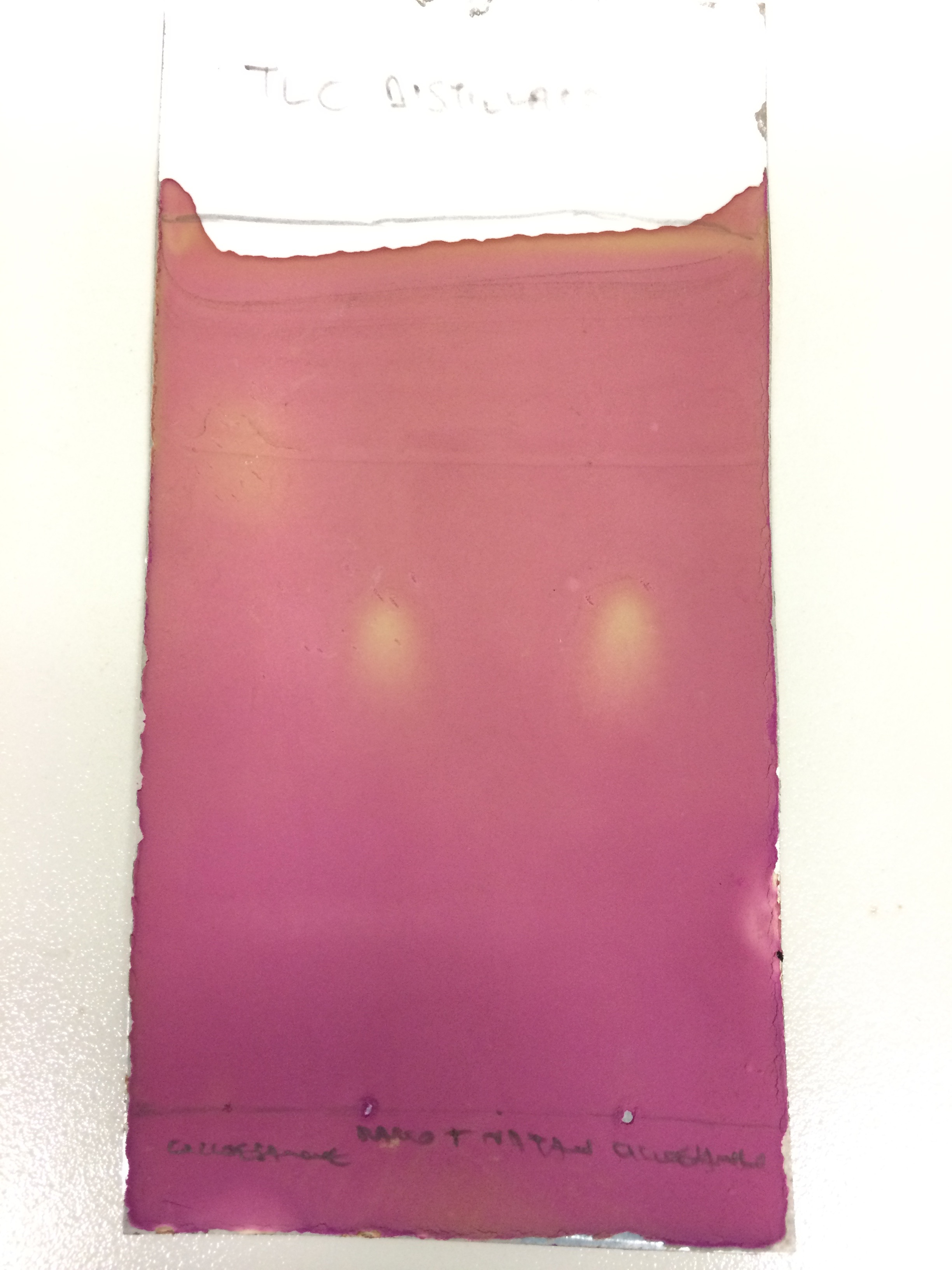 A TLC plate confirms that confirms the presence of cyclohexanol and absence of cyclohexanone in an unknown solution.